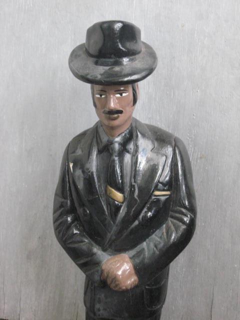 Zé Pretinho